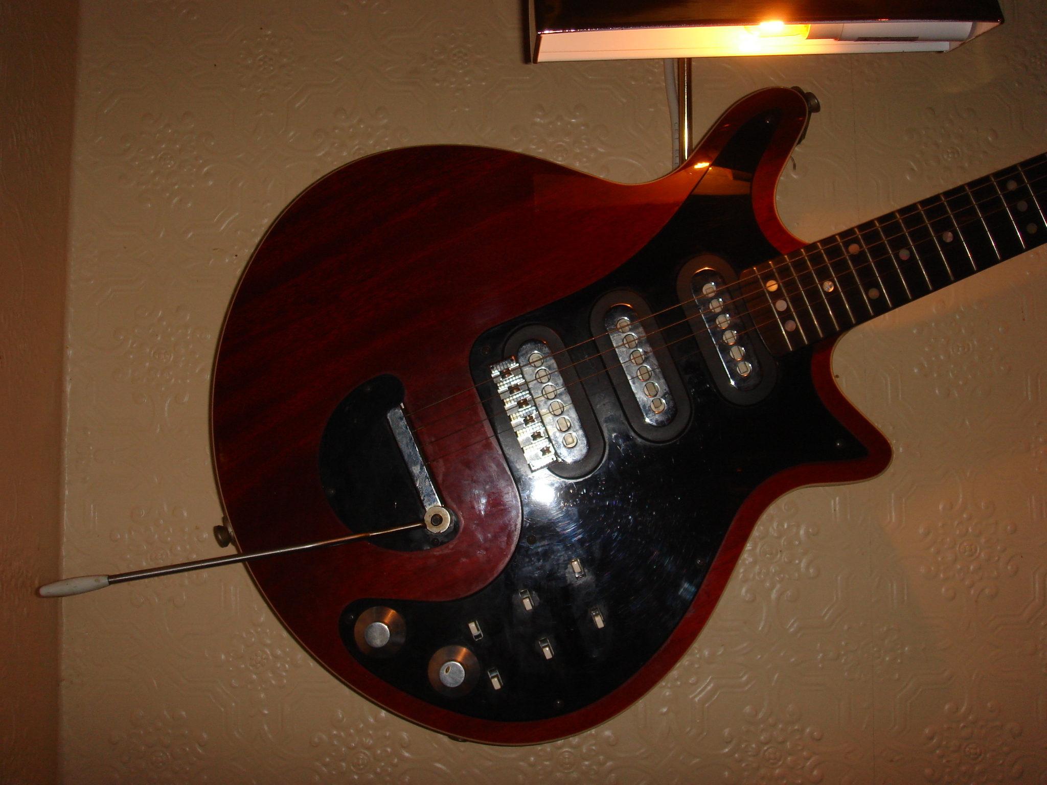 Unidentified guitar displayed at the Hard Rock Cafe in Madrid.